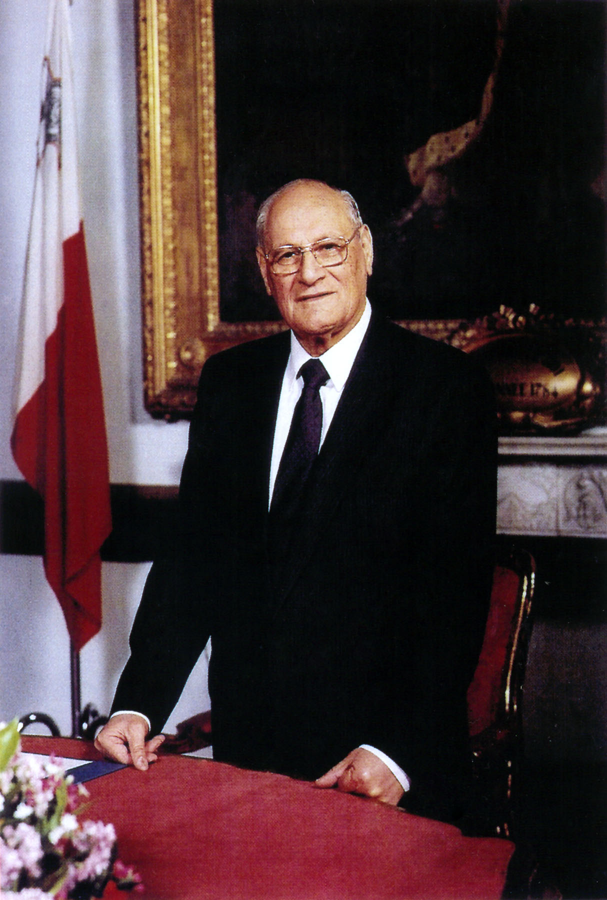 Portrait of Ċensu Tabone provided by the government of Malta.